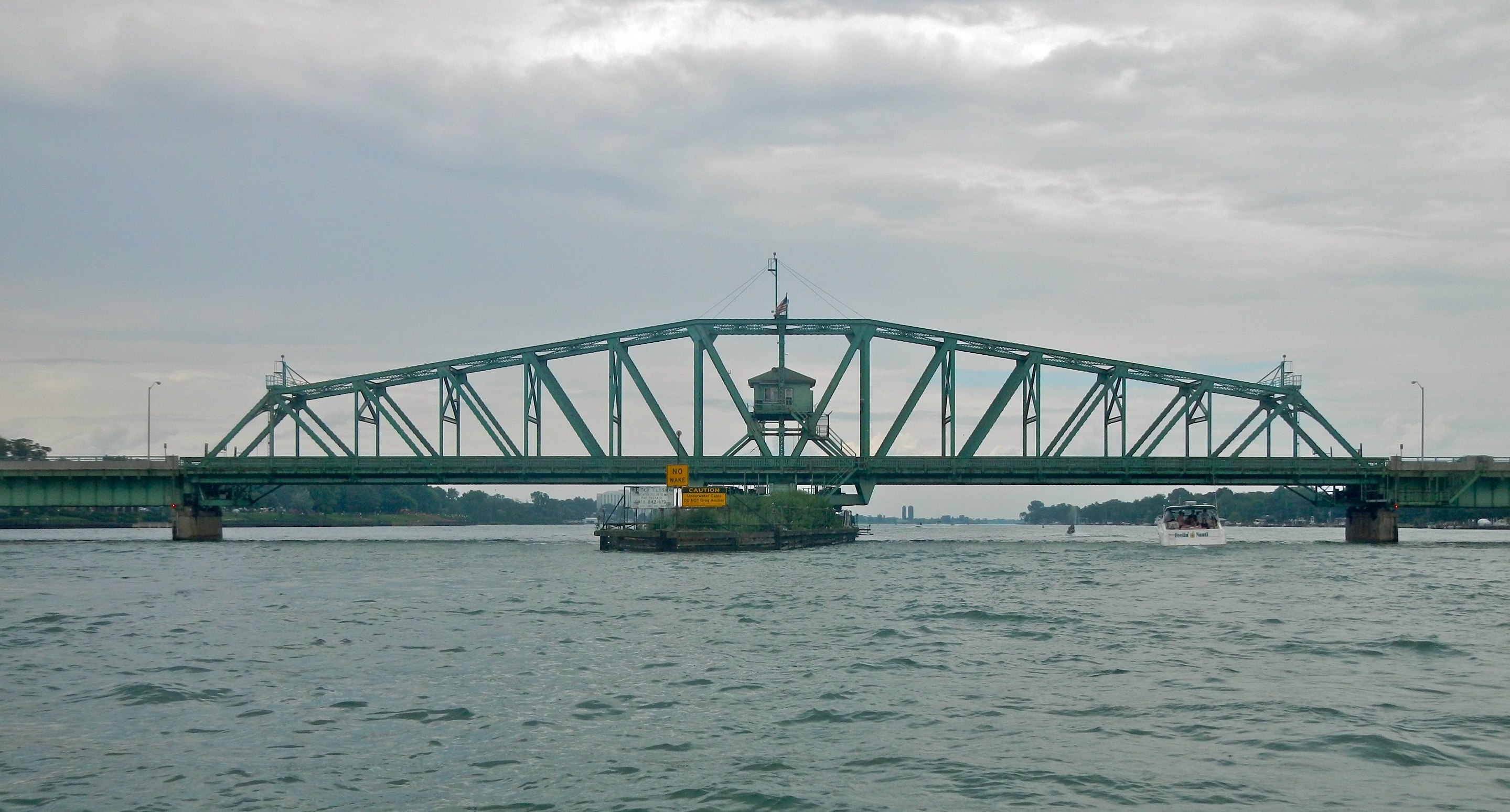 The swing span section of the Grosse Ile Free Bridge, also known as the Wayne County Bridge, which carries Grosse Ile Parkway across Trenton Channel. It was built in 1931, replacing an earlier bridge.